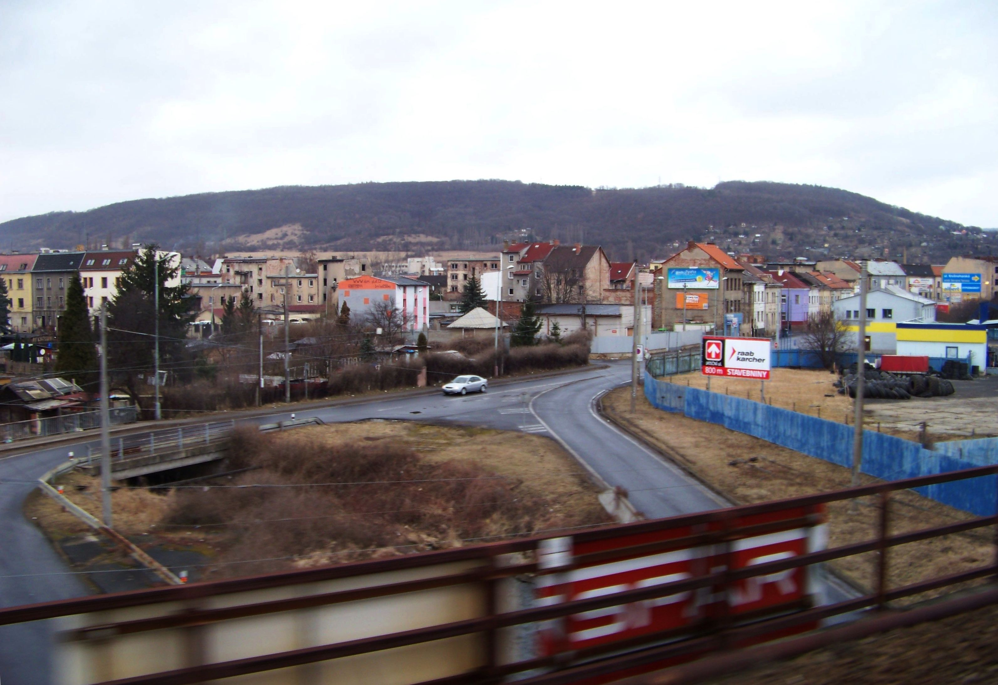 Ústí nad Labem-Předlice and Centre, Ústí nad Labem District, Ústí nad Labem Region, the Czech Republic. Majakovského street.